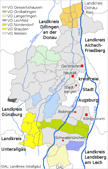 Verwaltungsgemeinschaften in the district of Augsburg